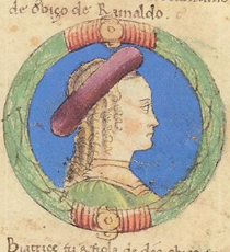 Beatrice d'Este, giudicessa of Gallura and lady of Milan